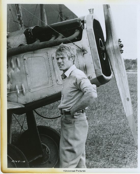 Robert Redford in the film The Great Waldo Pepper (1975). Catalog #: Movie-7 Notes: Photo of Waldo Pepper (Robert Redford) surveying the crowd that has gathered to watch his stunt exhibition. Repository: San Diego Air and Space Museum Archive